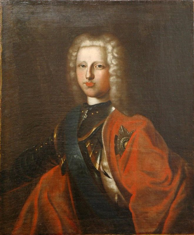 Karl August von Schleswig-Holstein-Gottorp